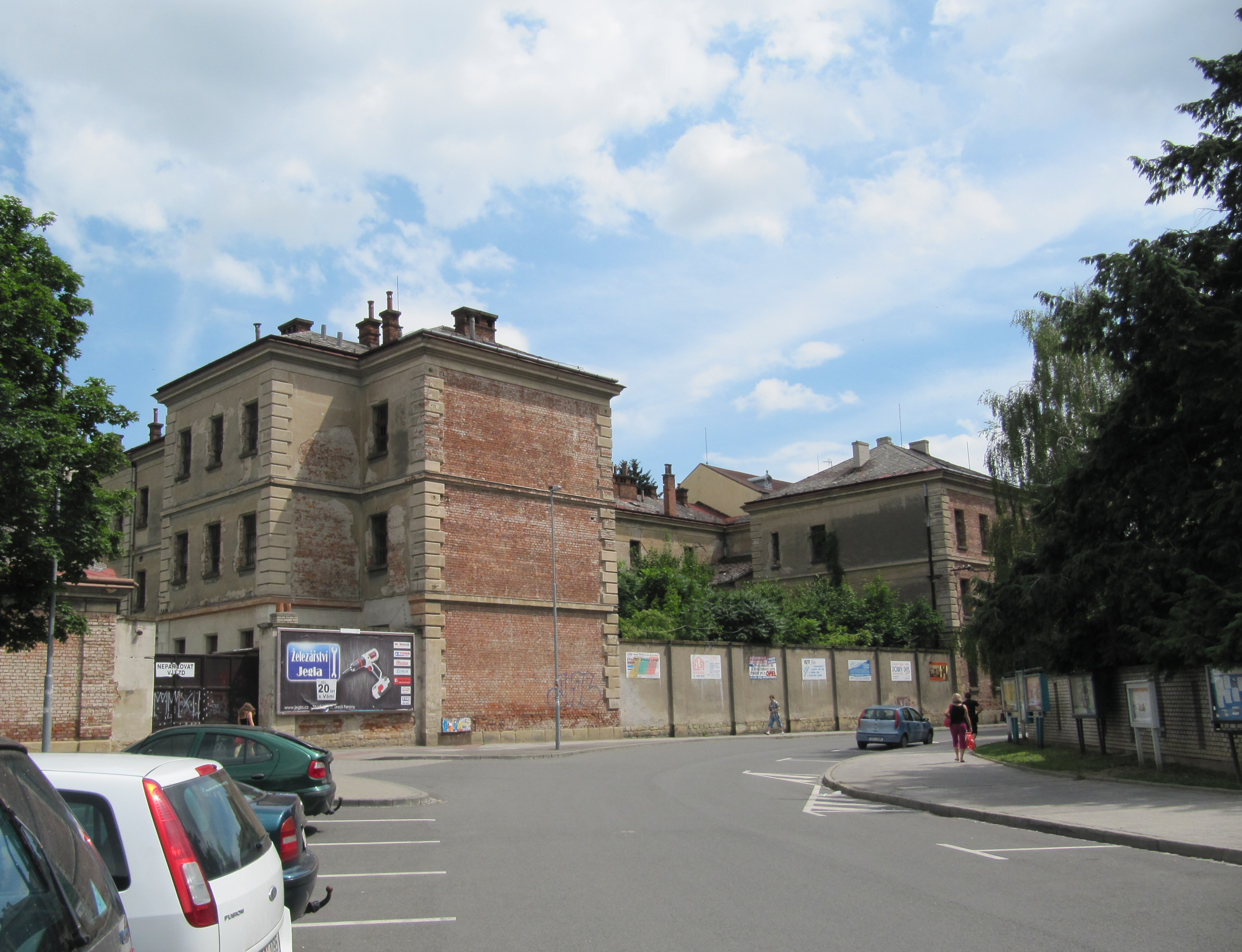 Uherské Hradiště, Czech Republic. Former prison.